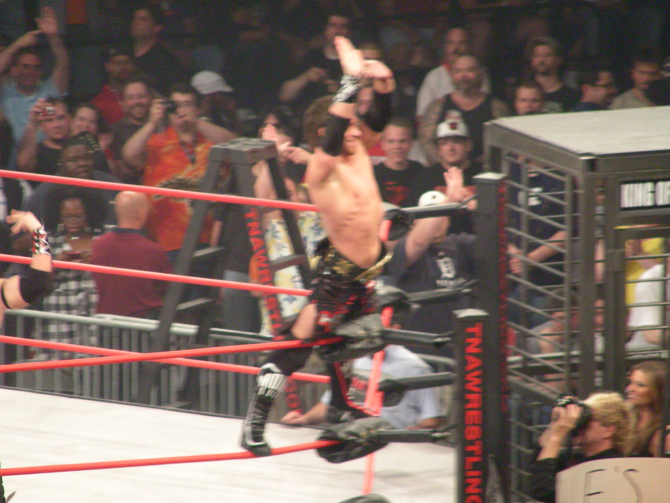 And the fourth man is now introduced for the X-Divsion King Of The Mountain Match from DETROIT, MICHIGAN... CHRIS SABIN!